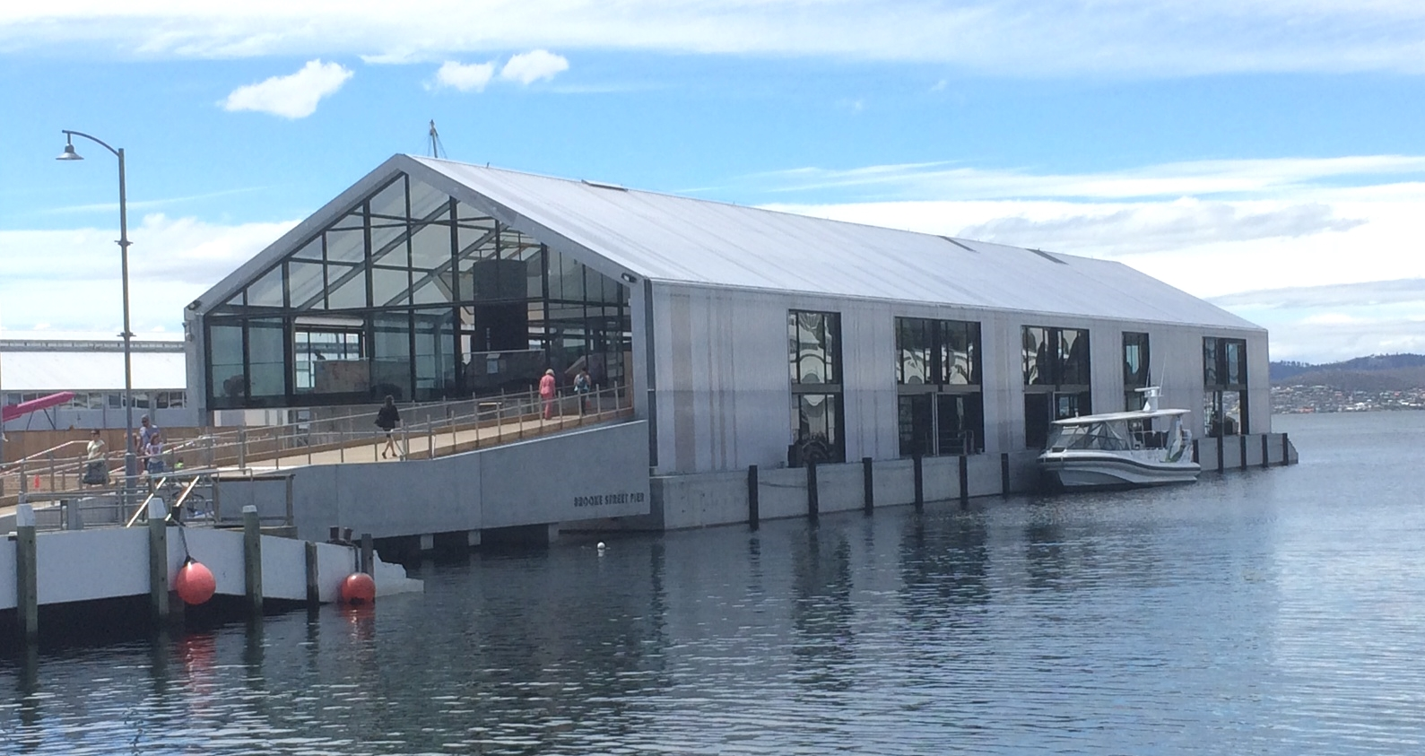 Brooke Street Pier shortly after official opening - 23 January 2015